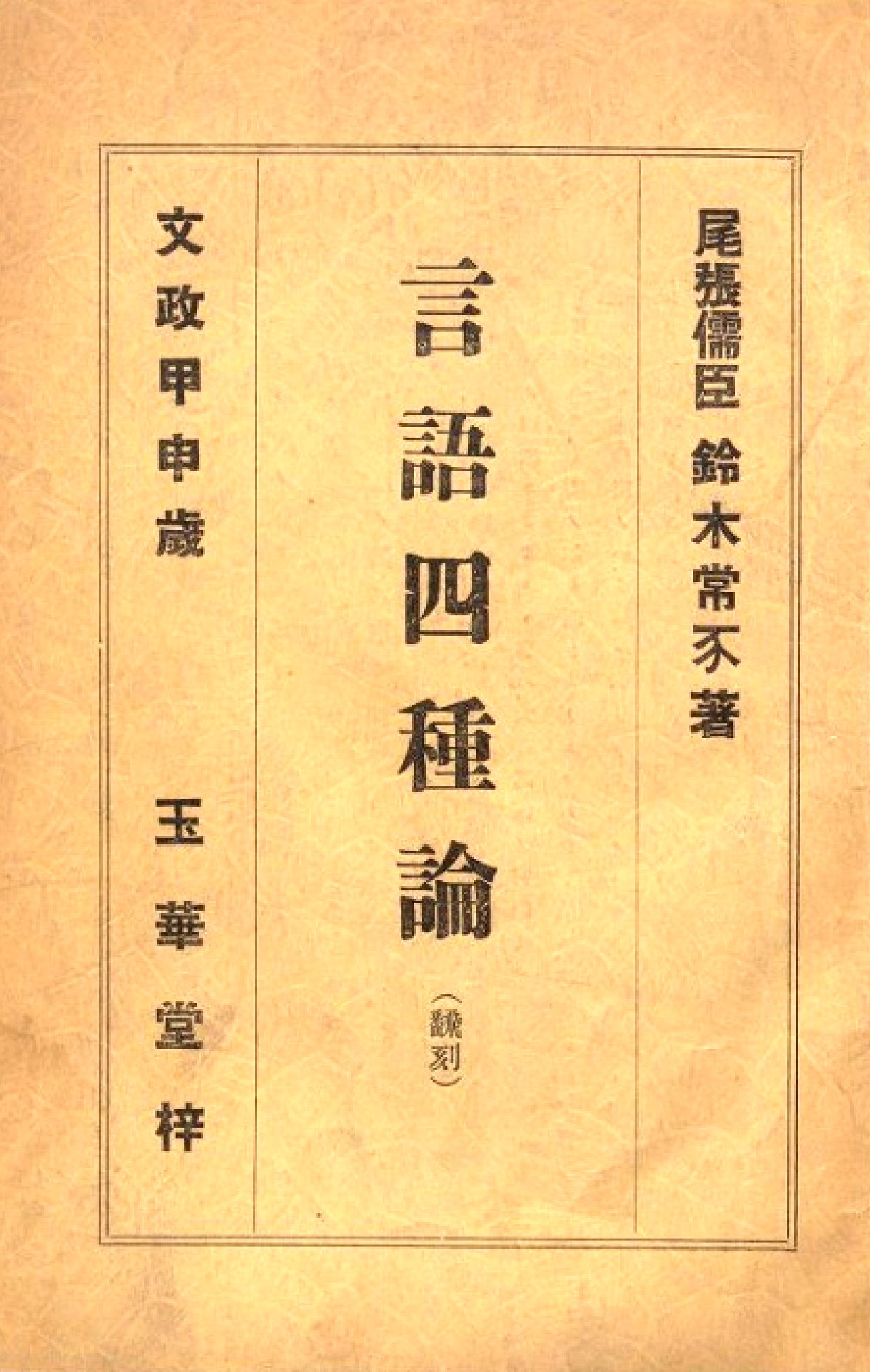 Cover of "Gengyo shishu-ron" by Suzuki Akira (1868-1834)